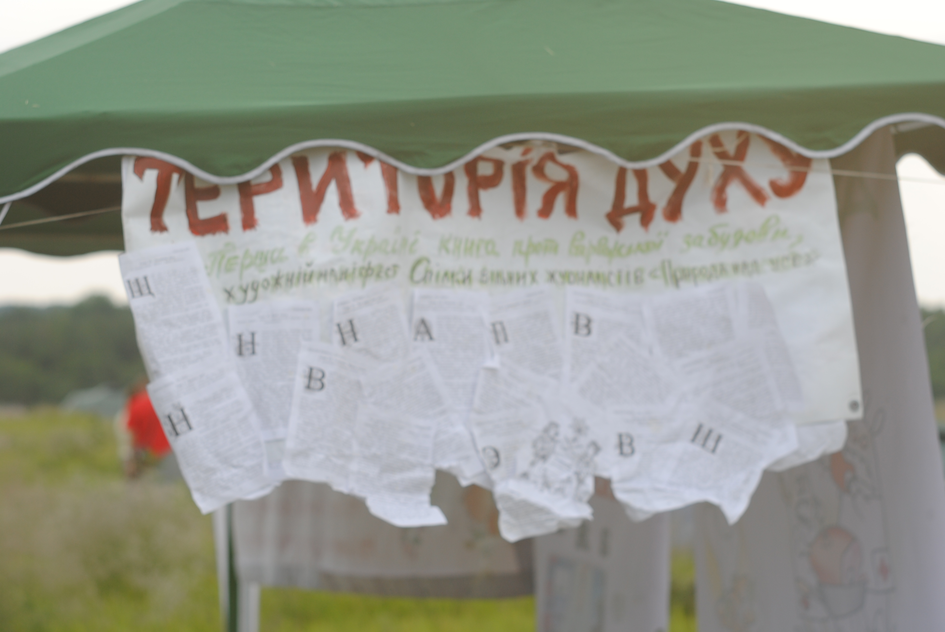 Інсталяція - презентація книги "Територія Духу" на фестивалі "Трипільське коло 2011"